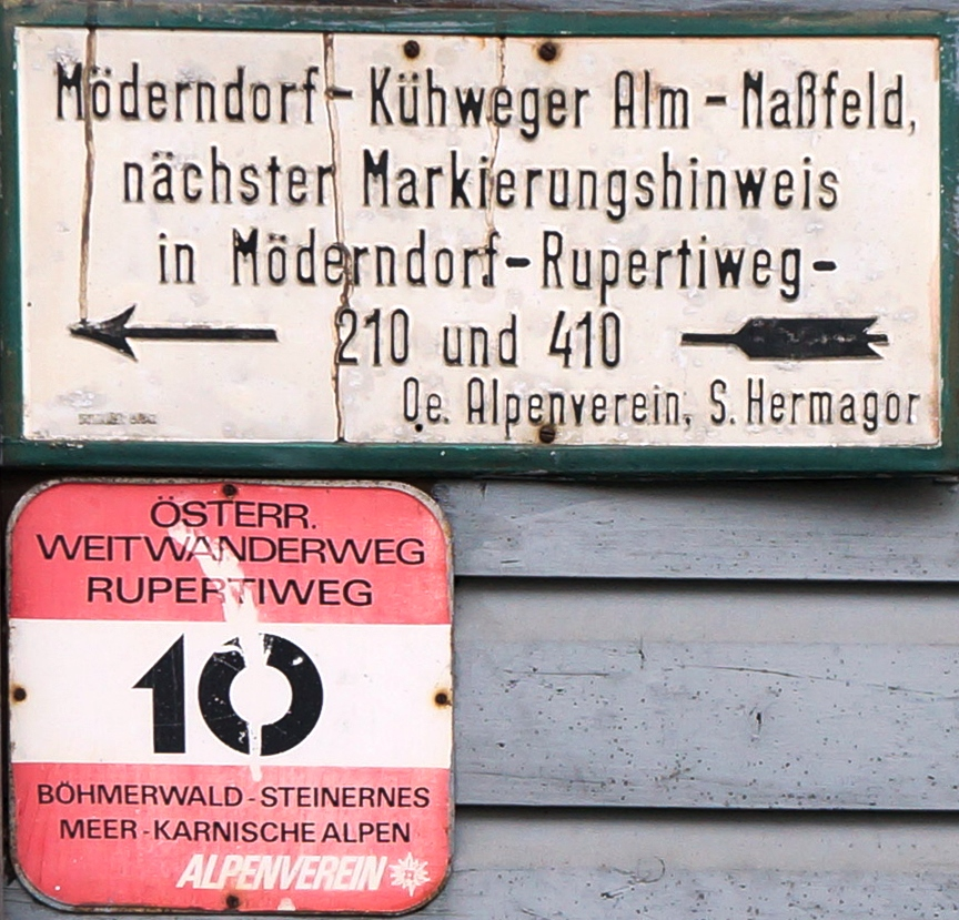 Hiking trails, Karnic area, Gailtal, Hermagor district, Carinthia, Austria, European Union